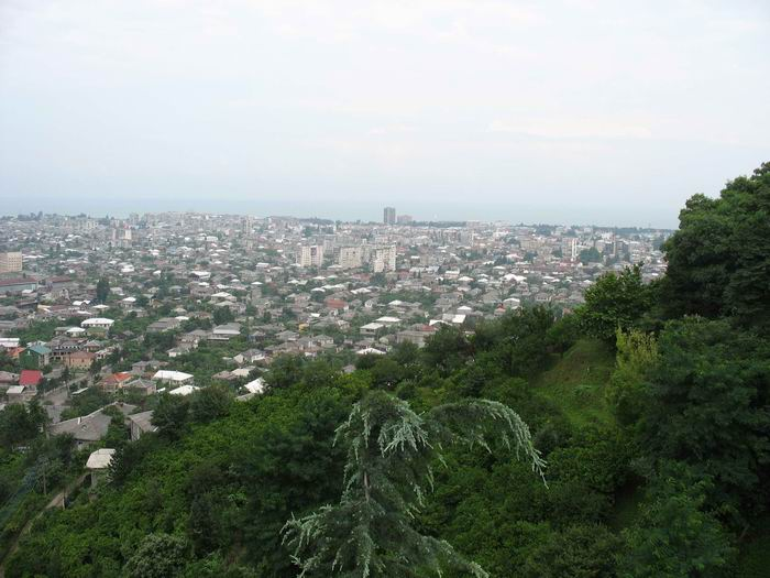 View on Batumi from the mountain